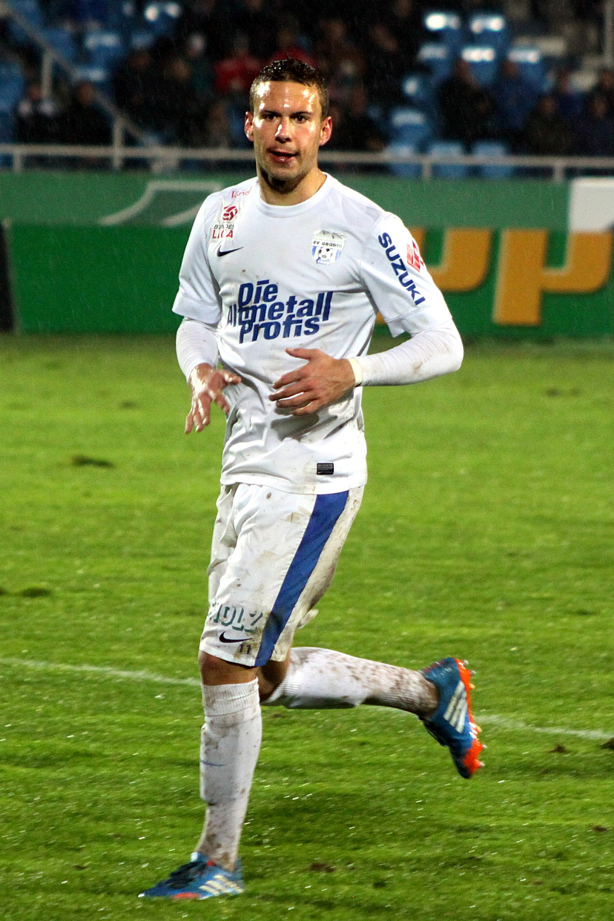 Austrian Football Bundesliga: SC Wiener Neustadt vs. SV Grödig (0:2) at 2013-11-23 in the Stadion Wiener Neustadt. – The photo shows Peter Tschernegg (SV Grödig).